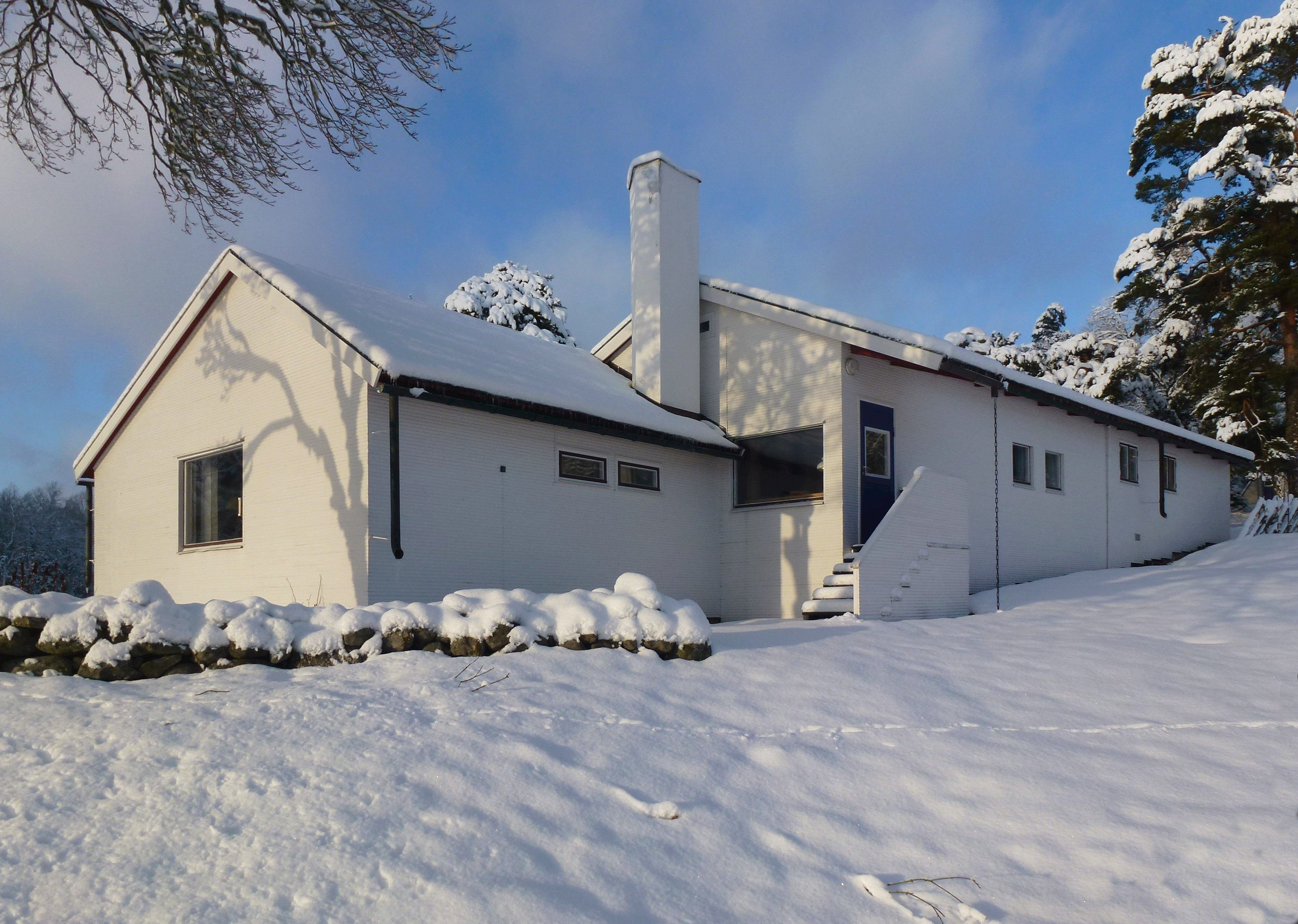 Gunnar Asplunds sommarhus Stennäs